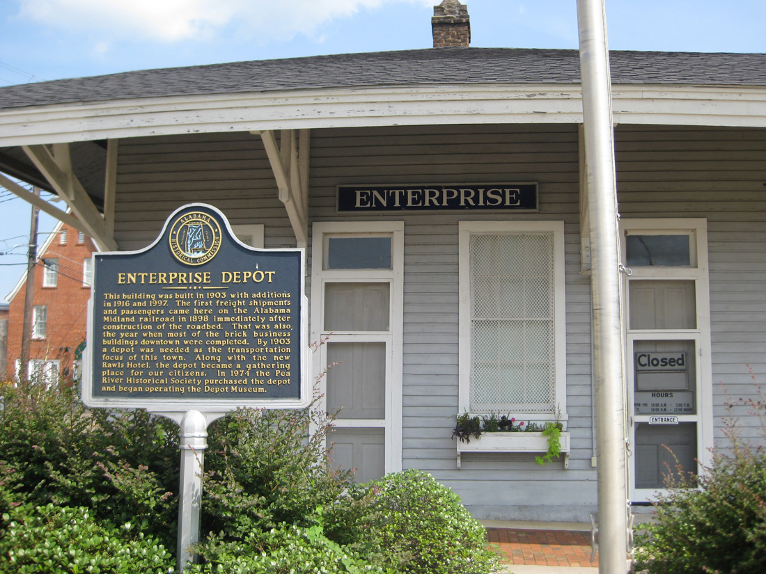 The front of the former rail depot in downtown Enterprise, Alabama, built in 1903 by the Alabama Midland Railway, now serving as the Depot Museum. A marker from the Alabama Historical Commission stands before the main entrance.